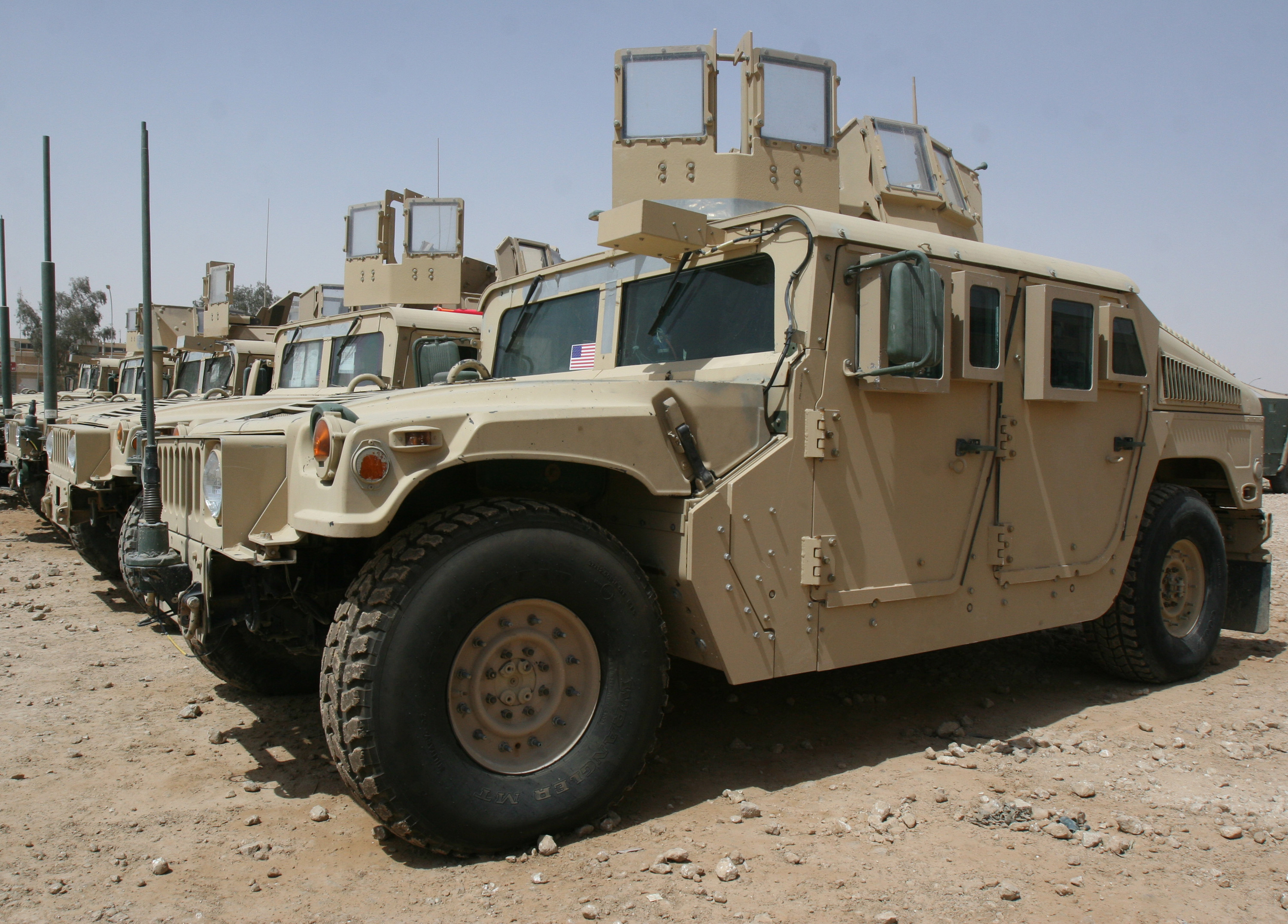 A row of humvees from Task Force Military Police sit awaiting use after going through a routine maintenance overhaul conducted by Marines of the task force's motor transport maintenance section, May 19, 2009. The unit's small team of motor transport mechanics work hard to keep the vehicles of TFMP rolling as they support Multi National Force - West operations in Iraq's Al Anbar province.